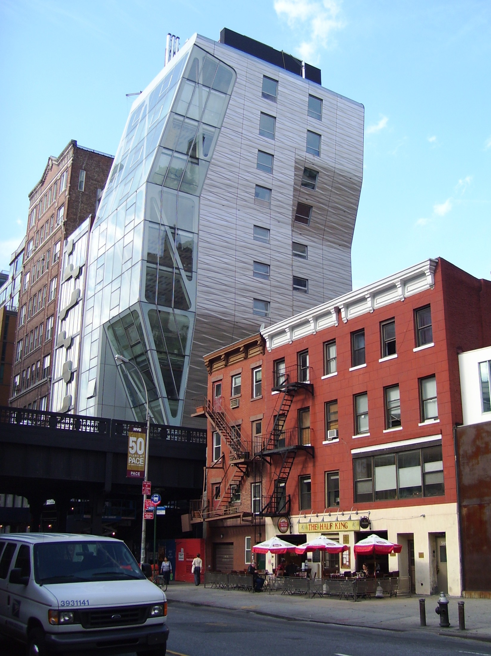 HL23, a luxury apartment building designed by Neil Denari, at 517 West 23rd Street in the Chelsea neighborhood of Manhattan, New York City, with the High Line Park and older buildings on the block. Still under construction as of October 2010.